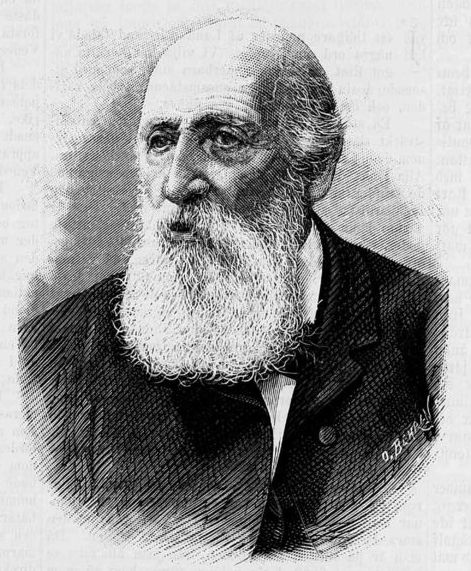 Georg Wallgren (1814-1889), Finnish physician